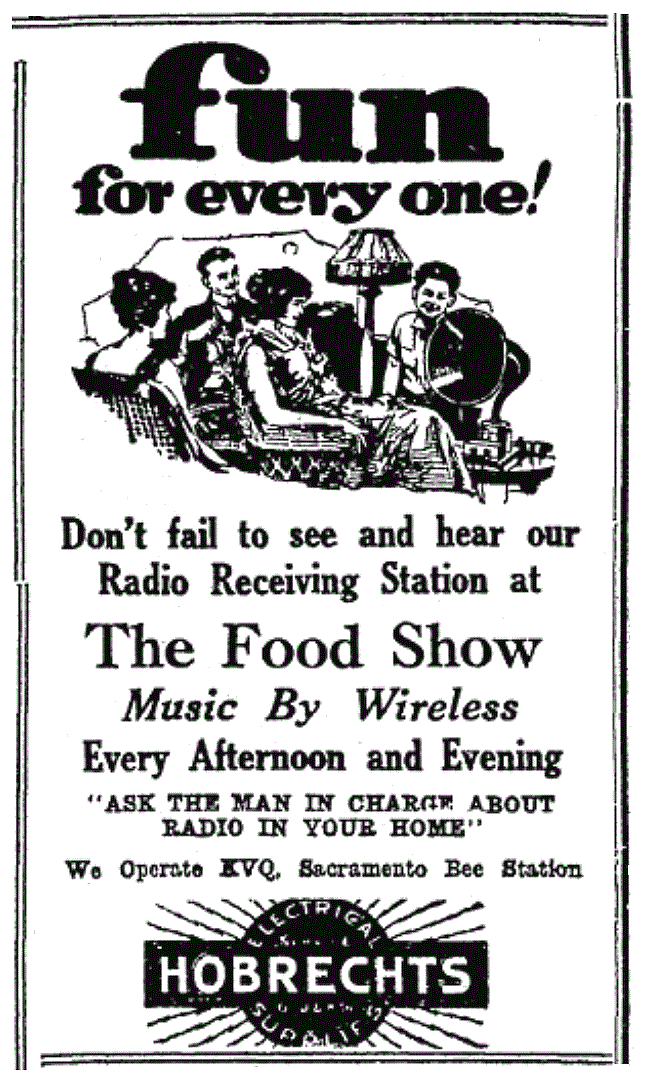 KVQ was licensed to J. C. Hobrecht on December 9, 1921 as Sacramento, California's first broadcasting station. This advertisement appeared as part of a full newspaper page of advertisements promoting the "Sacramento Industries and Food Products Show".